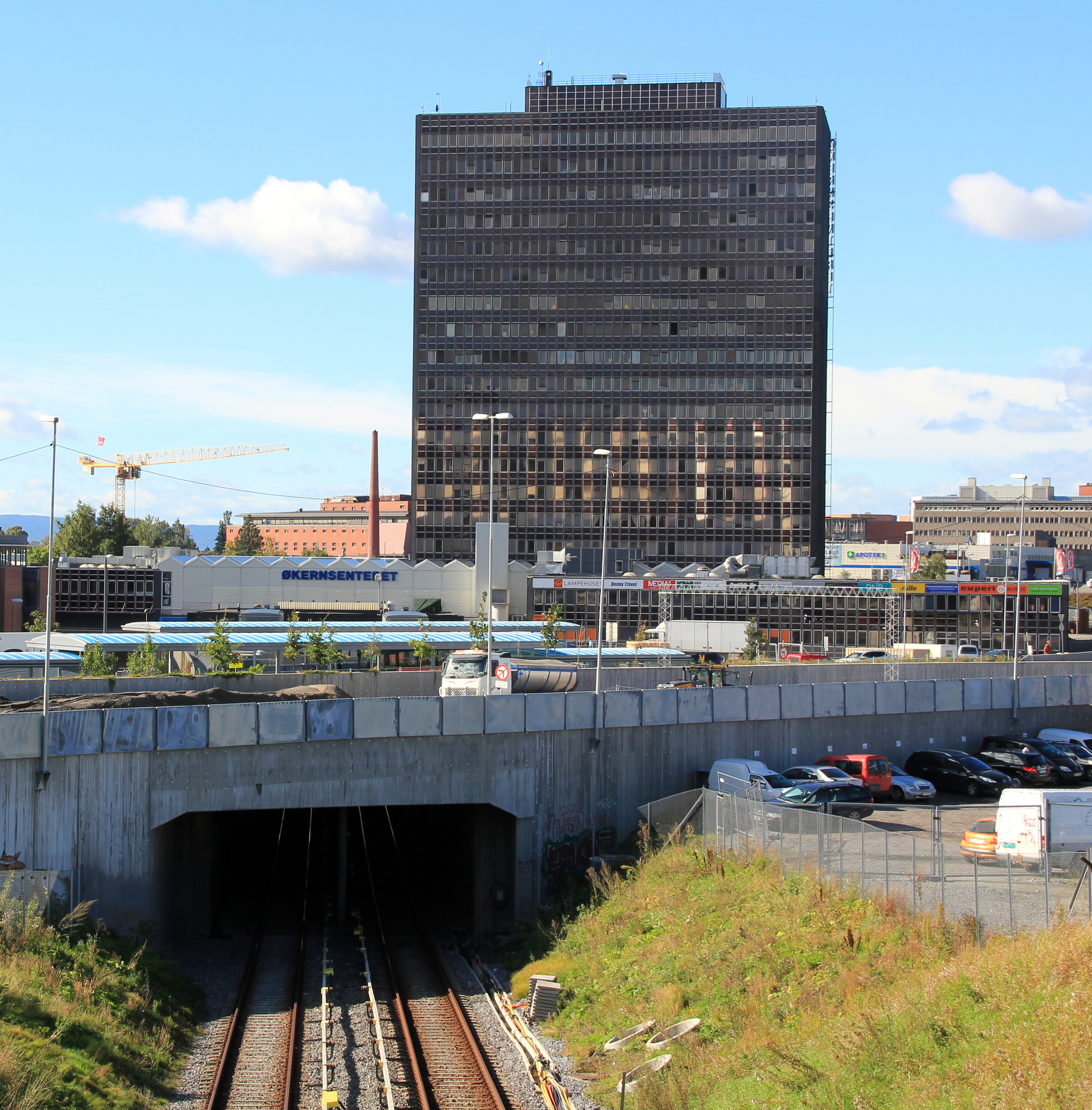 Økern senter